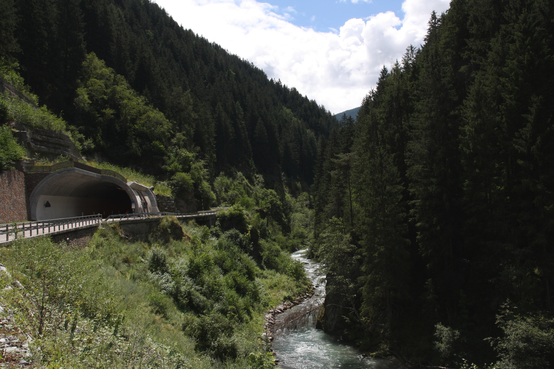 Gader Valley (German: Gadertal / Abteital; Italian & Ladin: Val Badia), federal road (Italian: strada statale; abbr.: SS) 244, new tunnel and old road, and river "Gader" (Italian: Gadera; Ladin: La gran ega)